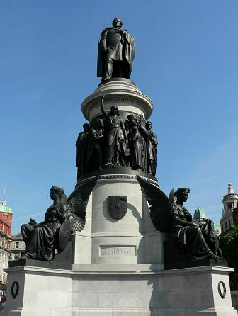 O'Connell Monument, O'Connell Street, Dublin, Ireland, May 2005, as photographed immediately post-unveiling after the completion of the most comprehensive conservation works ever carried out on the monument.